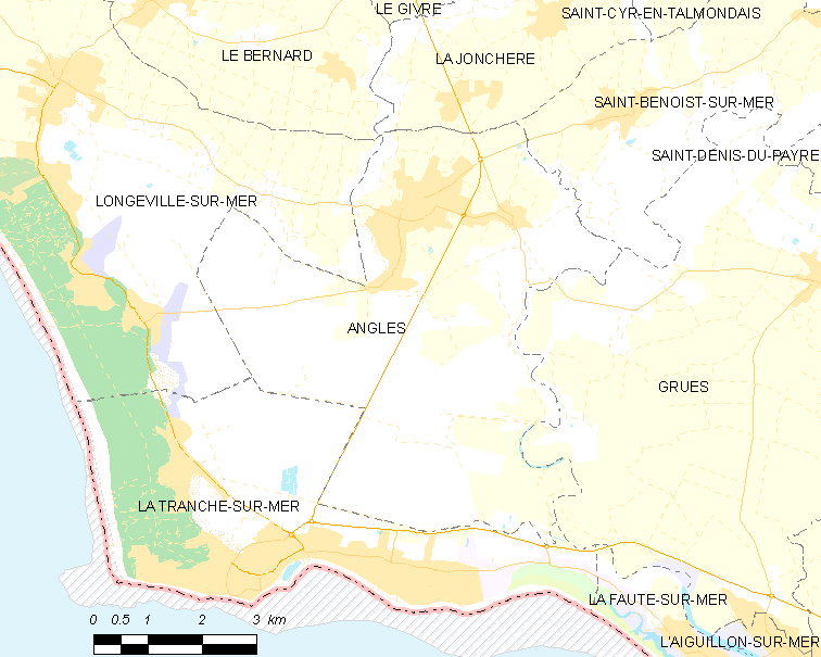 Map of French municipality Angles